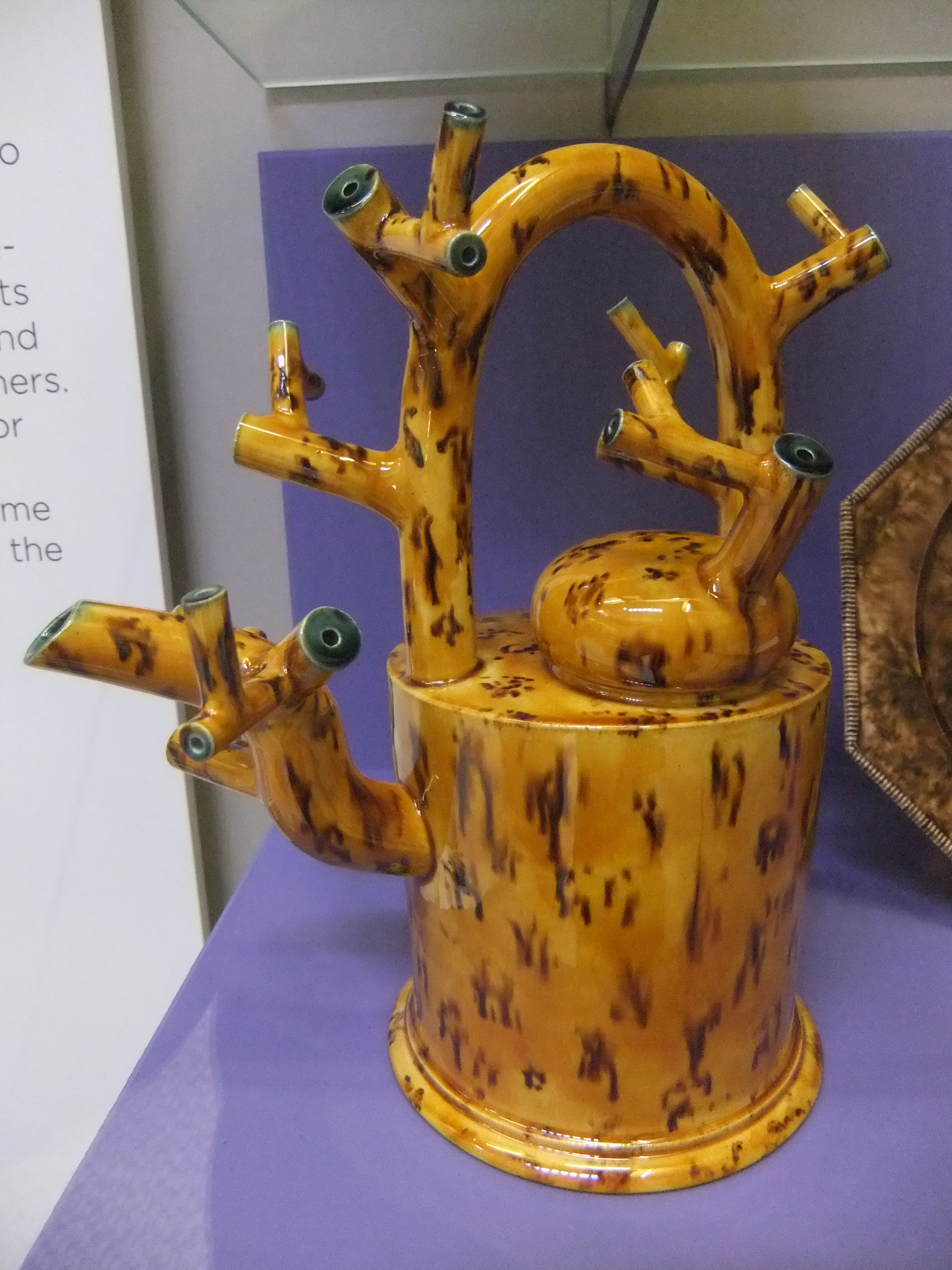 Cut Branch Teapot (2008) by Walter Keeler, Harris Museum, Preston.